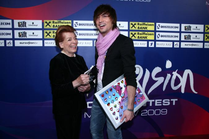 Lys Assia and Dima Bilan at the Eurovision Song Contest 2009 in Moscow. Image taken with a mobile camera.